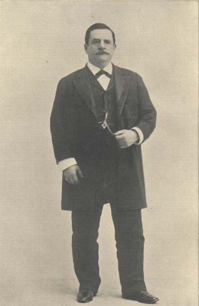 The American Imprasario Tony Pastor